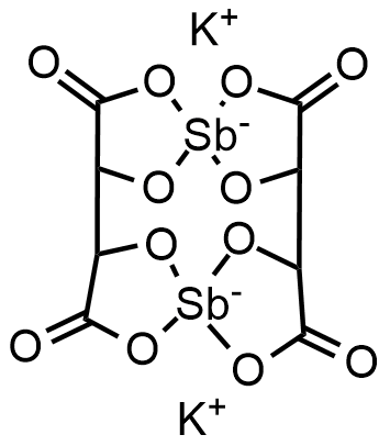 Skeletal structure of antimony potassium tartrate